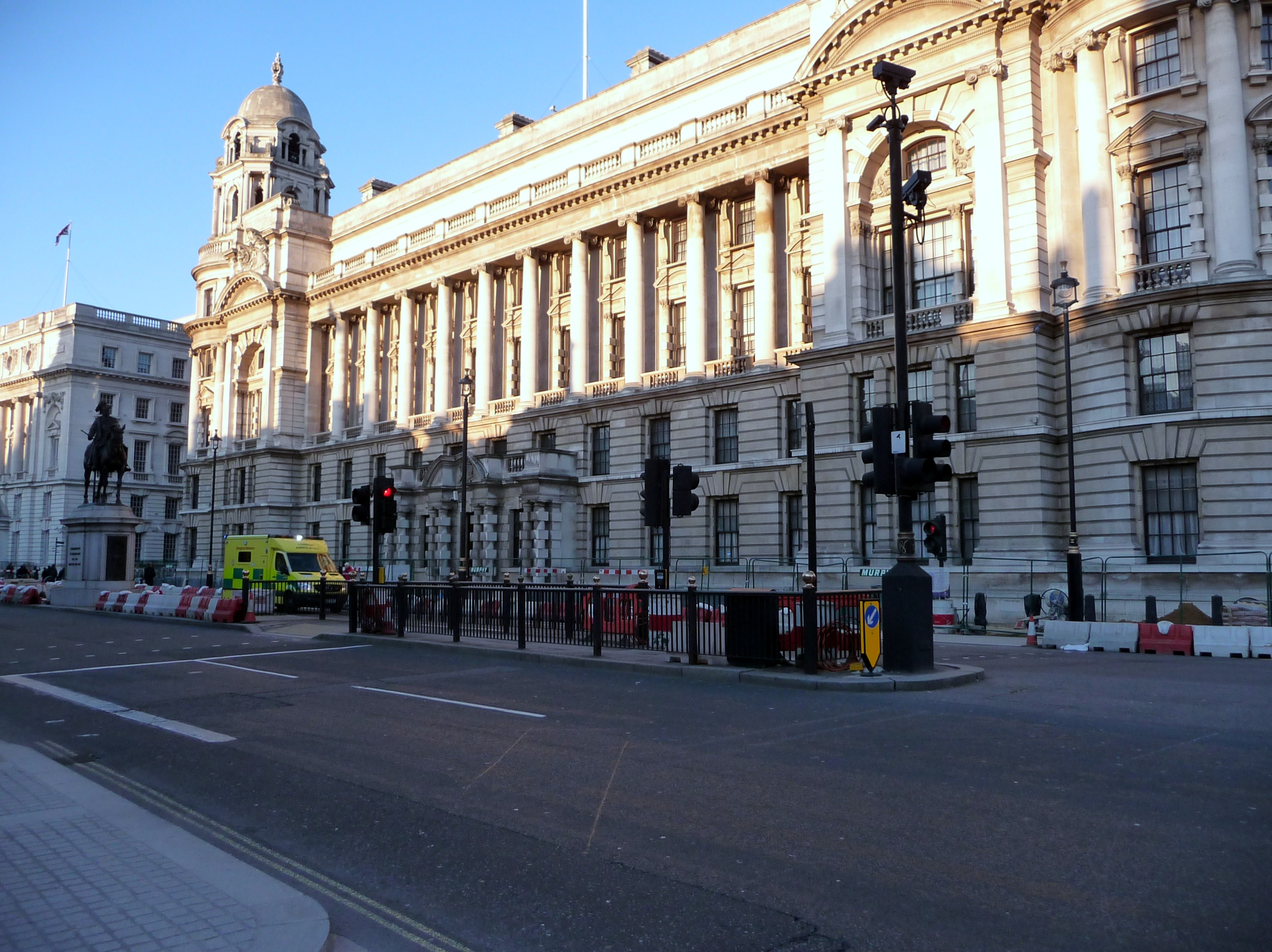 London : Westminster - Whitehall An ambulance speeds along Whitehall and through a pedestrian crossing.